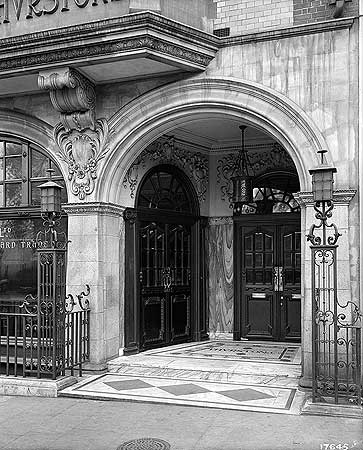 Entrance to Thurston's Hall (later Leicester Square Hall, demolished 1956)